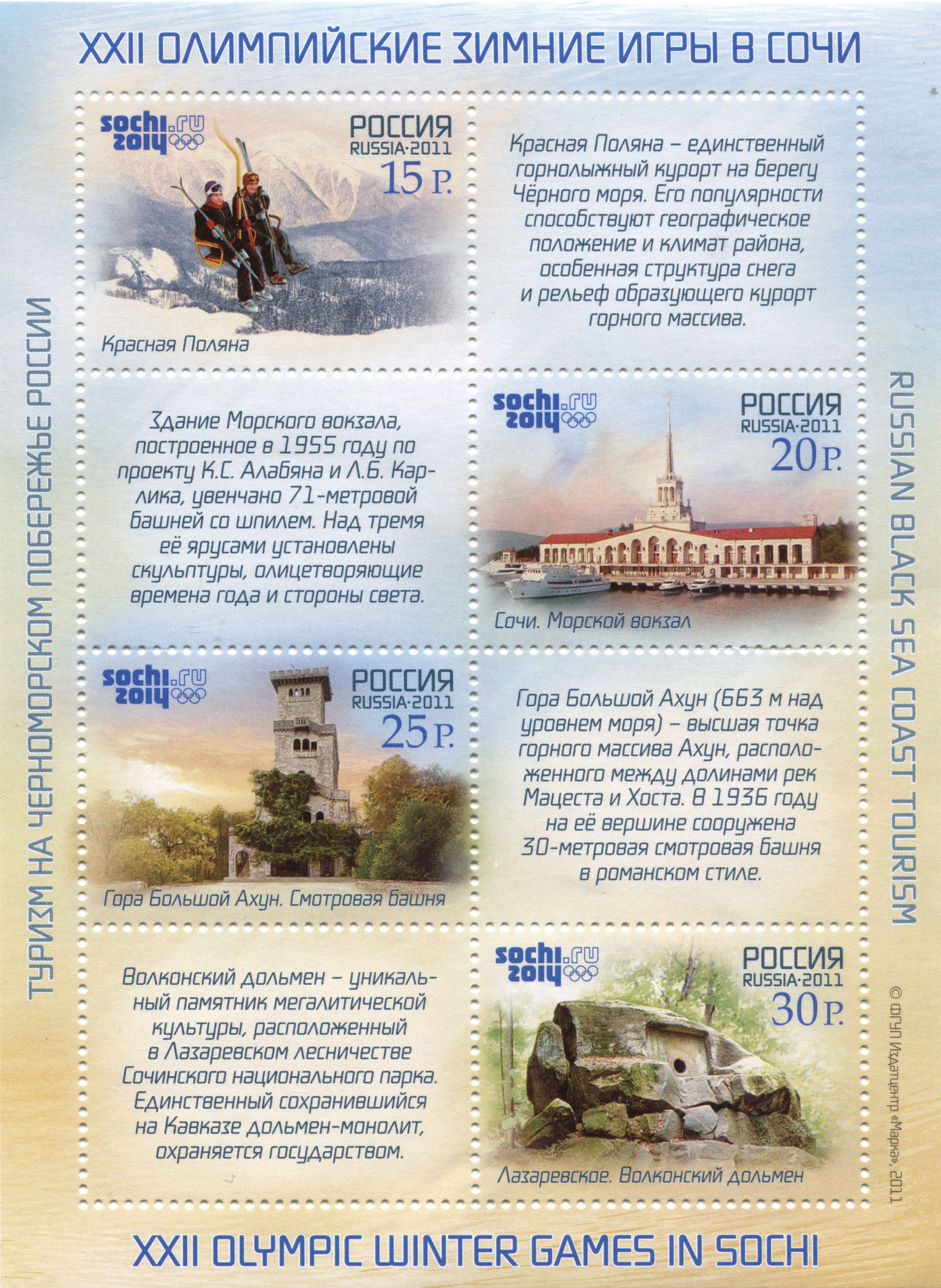 XXII Olympic winger games in Sochi The stamp of Russia, 2011, PTC Marka Catalogue 1524-1527.